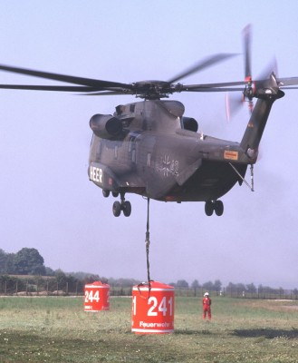 German army helicopter of type Sikorsky CH-53 (S-65) ready for airlifting a firefighting bucket.